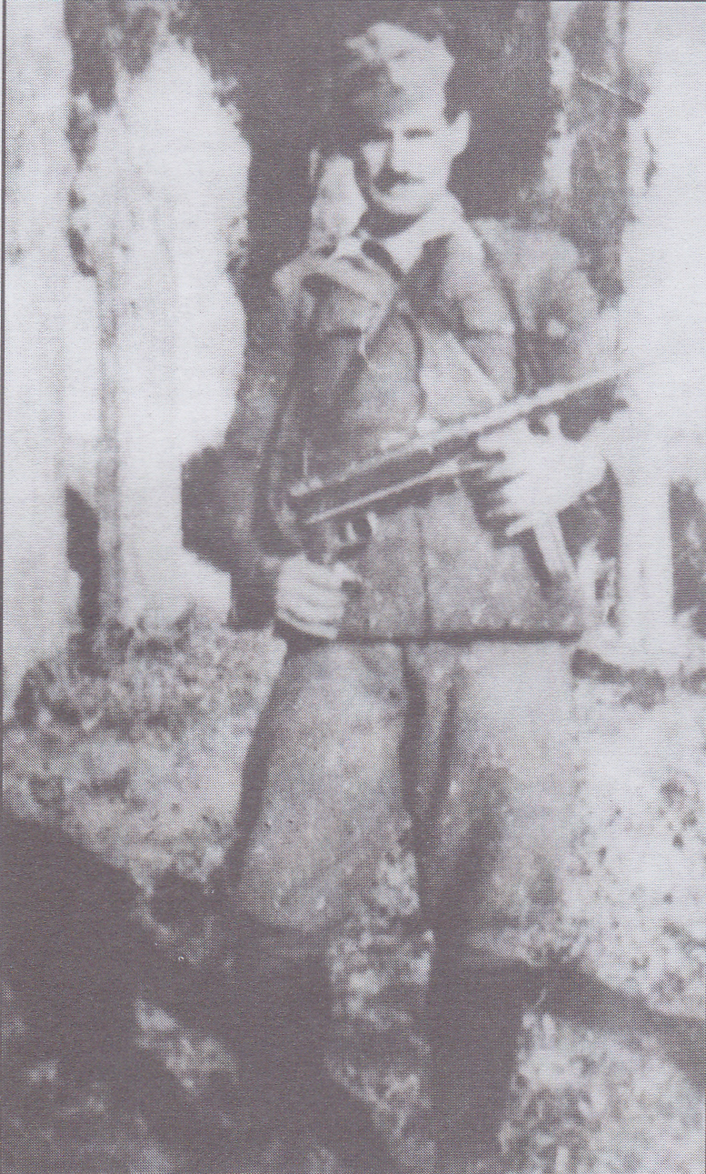 Kostadin Suliov Chereshnitsa